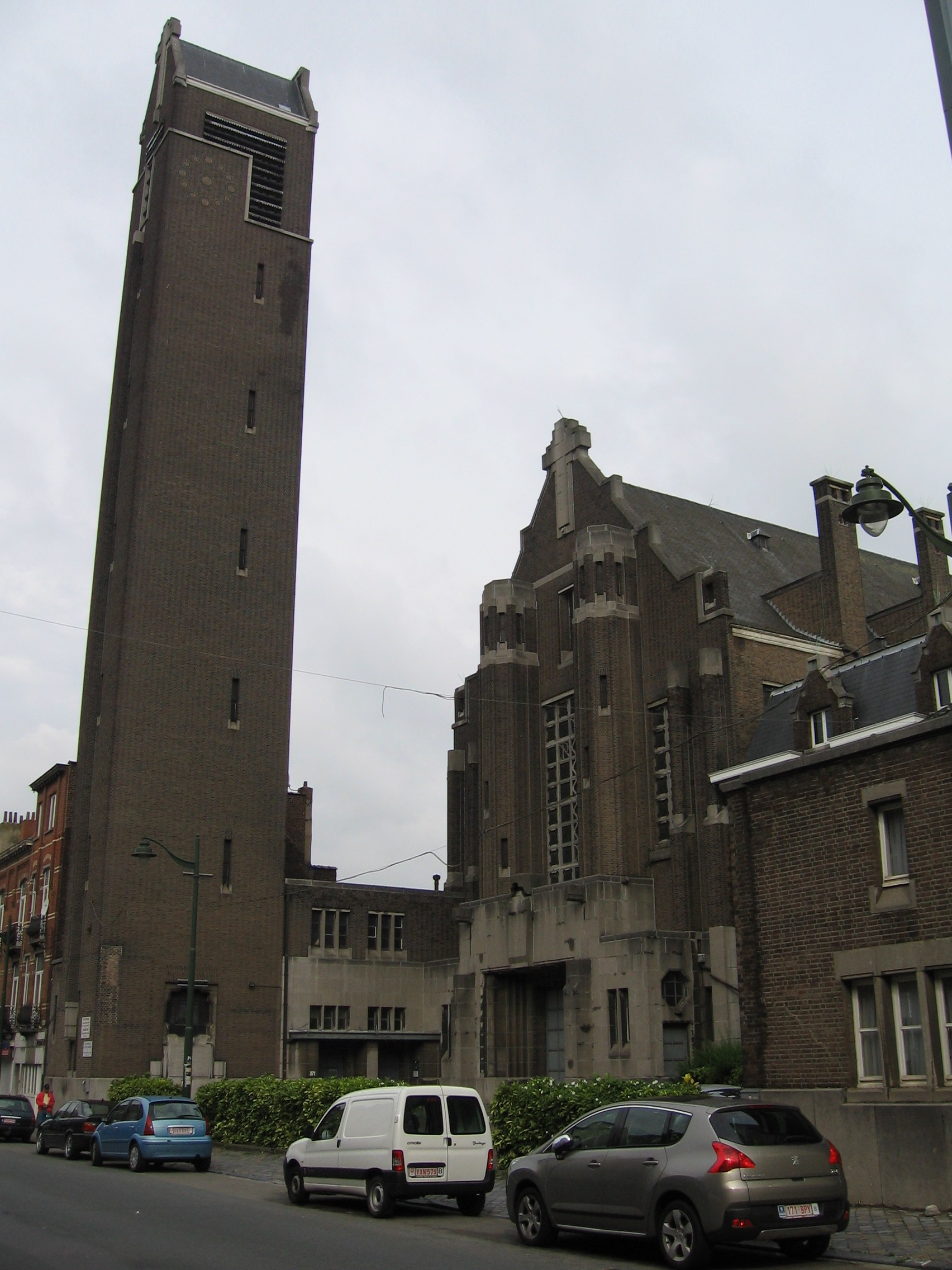 Église de Scheut, à Anderlecht (Bruxelles) Église Saint-Vincent-de-Paul.